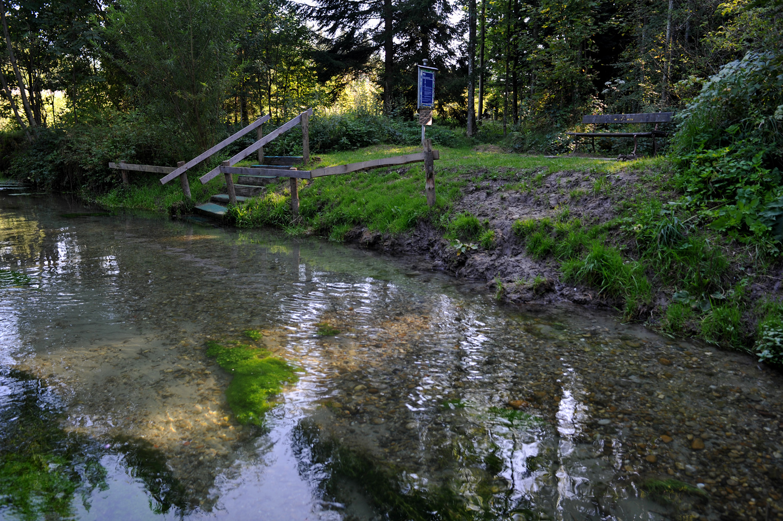 Kneippism place at the rill Ösch near Recherswil; Solothurn, Switzerland.